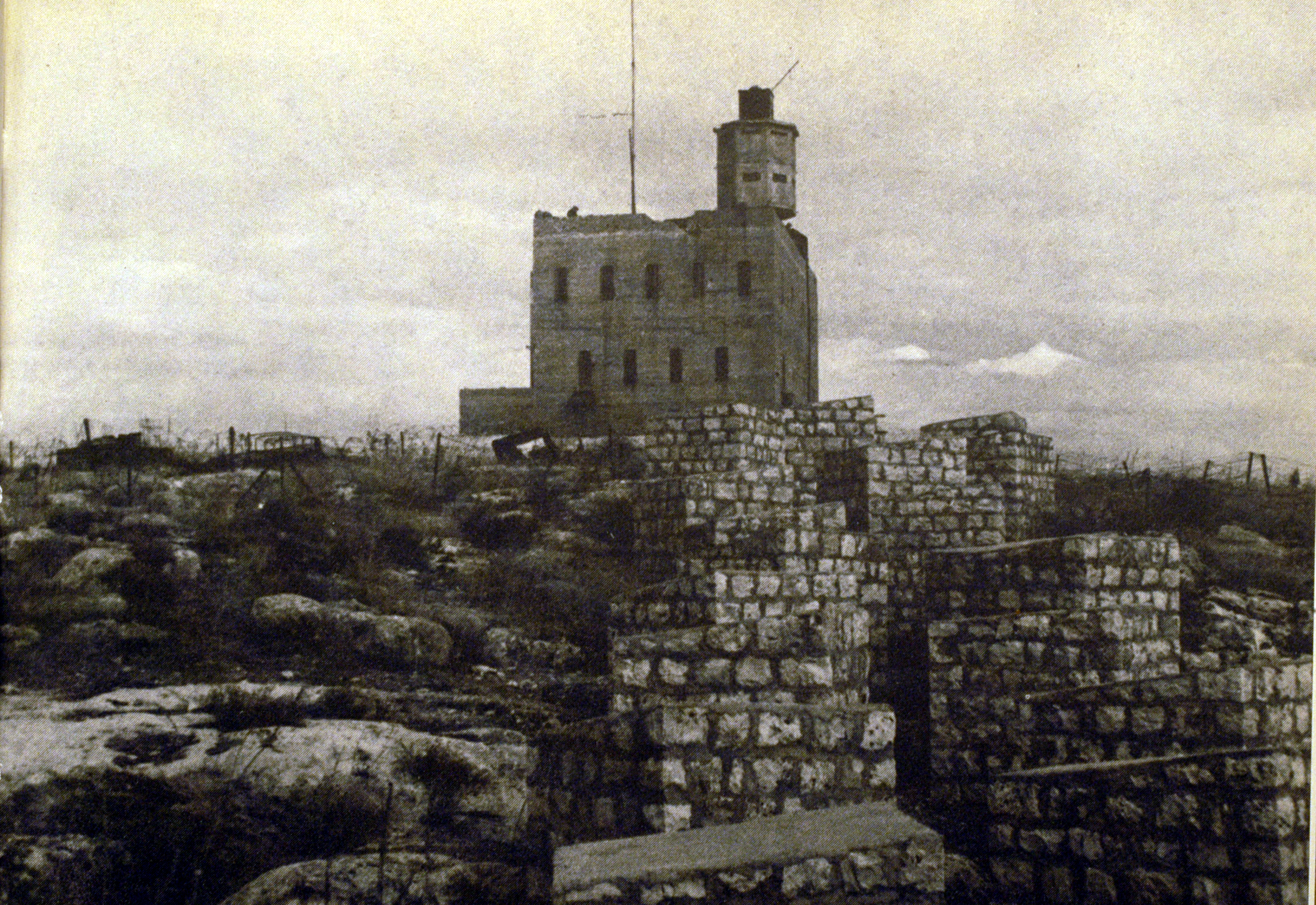 Nebi Yusha police fortress in upper Galilee.